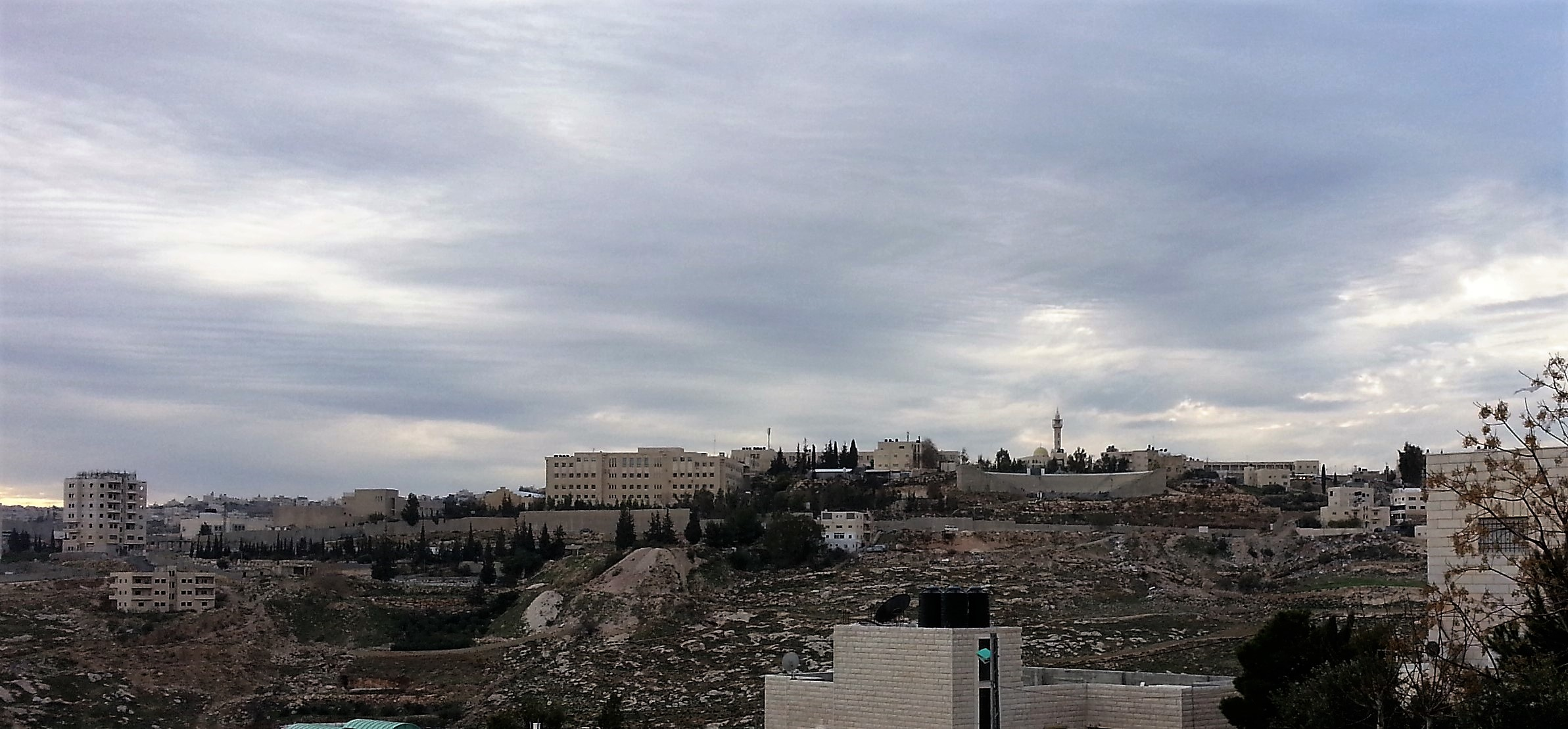 Al-Quds University from the east